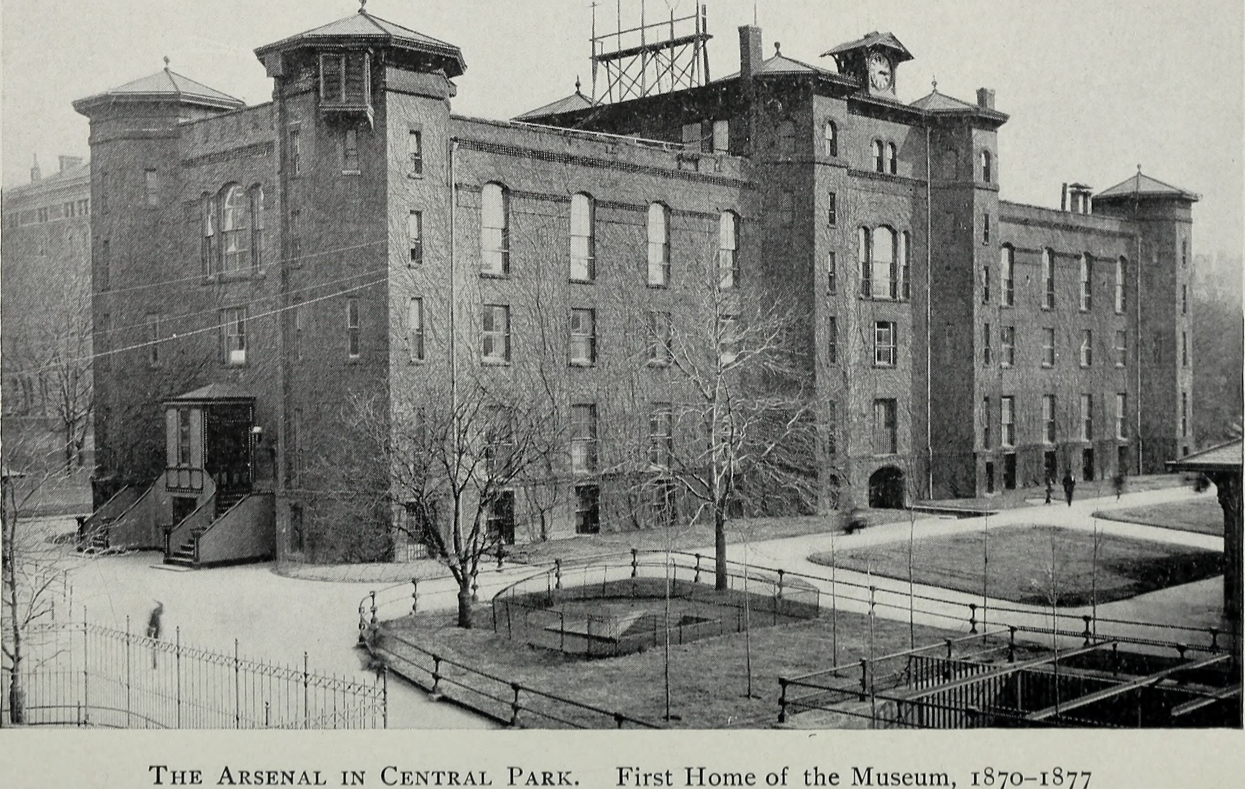 The Arsenal in Central Park Title: Annual report of the American Museum of Natural History for the year Year: 1870 (1870s) Authors: American Museum of Natural History Subjects: American Museum of Natural History; Natural history museums Publisher: New York : [The Museum] Text Appearing Before Image: ' Text Appearing After Image: '